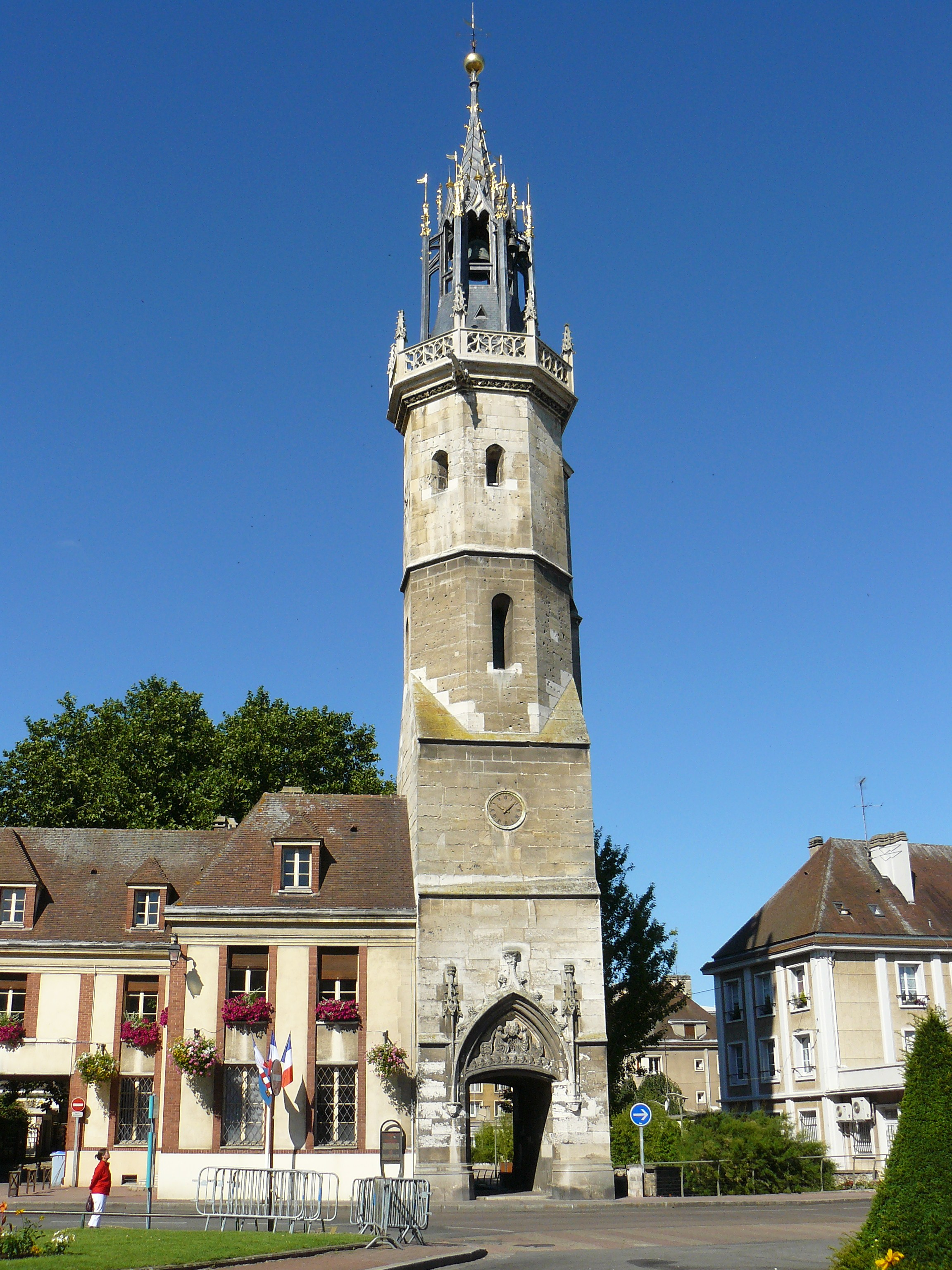 Clock Tower at Evreux (Eure, France)